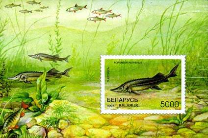 Stamp of Belarus